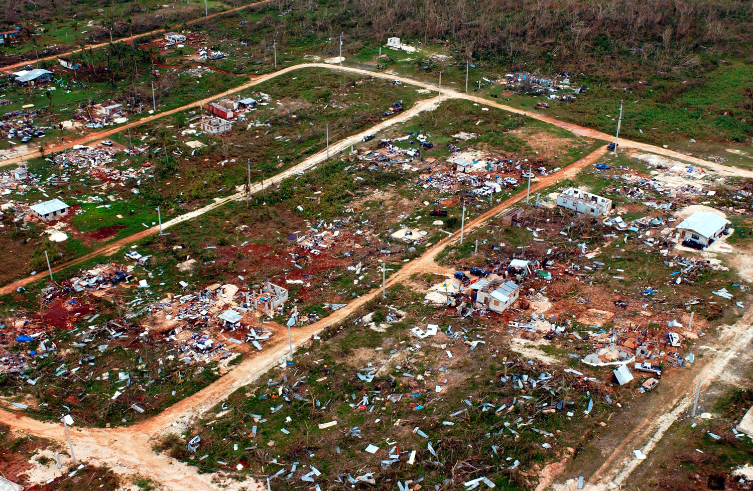 Extensive damage on Guam caused by typhoon Pongsona December 8, 2002.